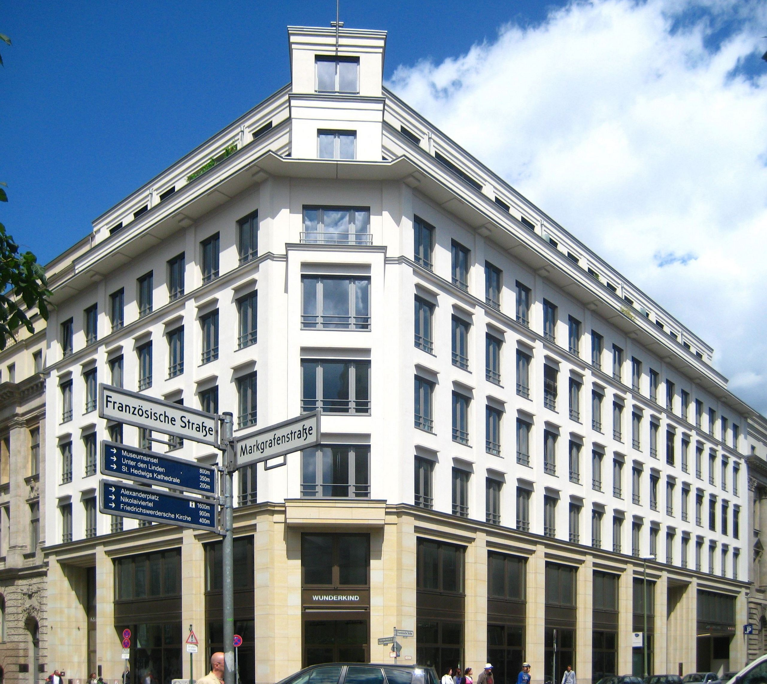 The "GendarmenPalais" at the corner of Französische Straße and Markgrafenstraße in Berlin-Mitte; here seen from the northeastern corner of Gendarmenmarkt; it was built 2004-2006 and replaces a wing of the former Dresdner Bank main building which was destroyed in WWII.